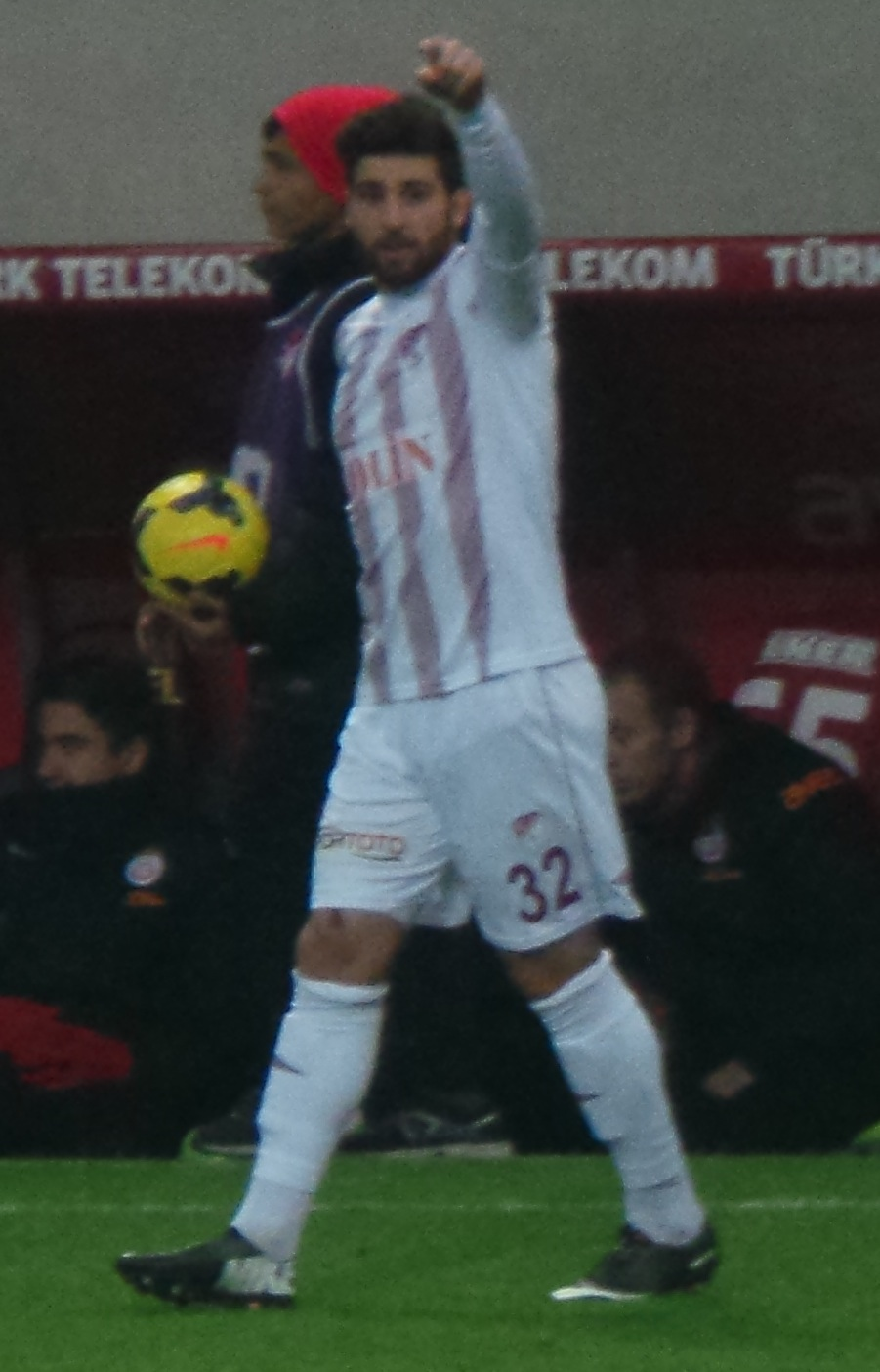 Onur Ayık with Elazığ against G.S.